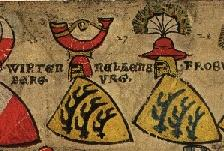 Coats of arms of Württemberg and Nellenburg